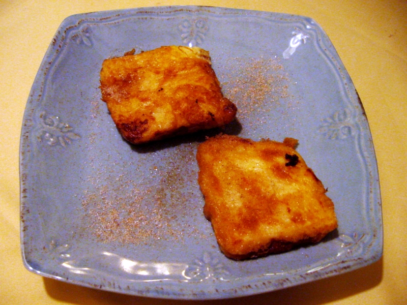 La Ferrería: Leche frita (dessert)